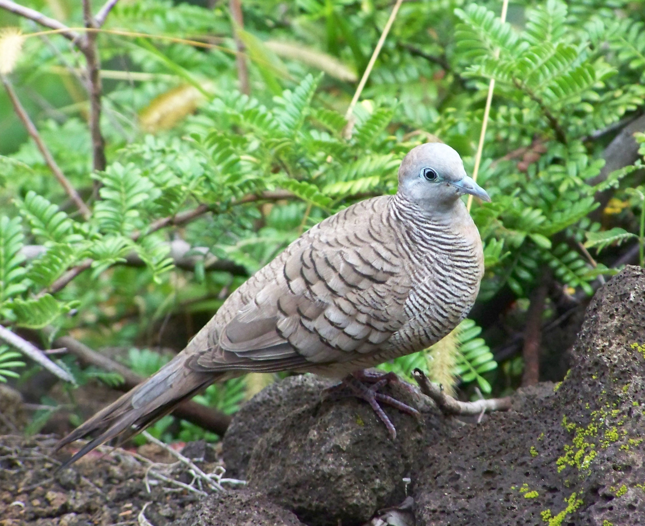 Zebra Dove on the Big Island of Hawaiʻi.